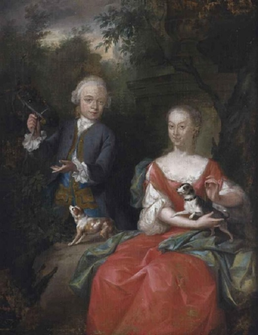 Ocker Gevaerts (1735-1807) and his sister Johanna (1733-1779, by Aert Schouman